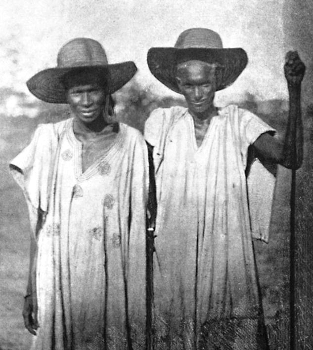 Bororoji, or wandering Fulahs